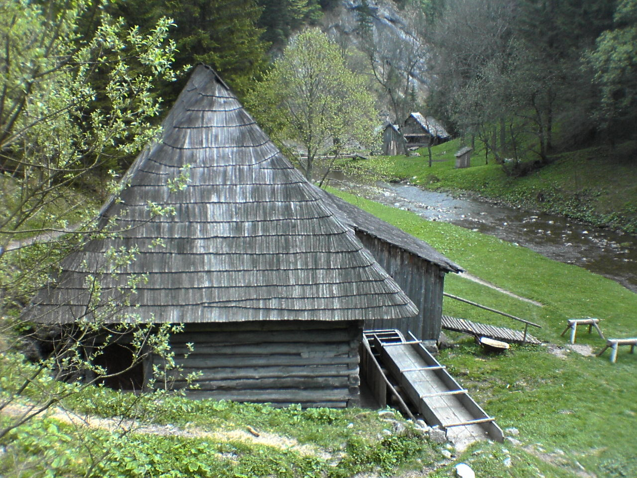 Kvačianska dolina-water mill in Oblazy